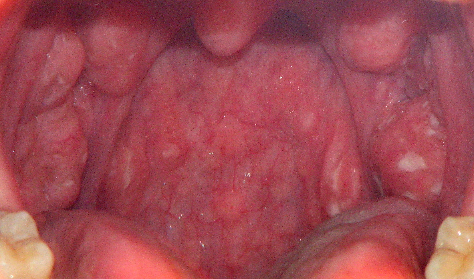 White splotches typical of strep throat.